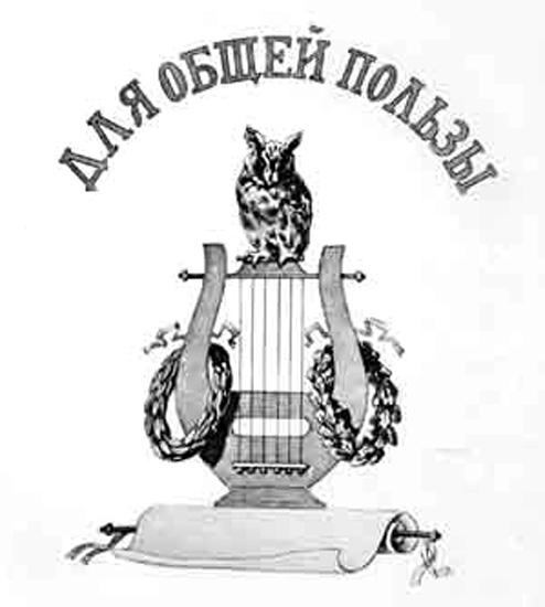 Coat of arms fo the Imperial Alexander Lyceum